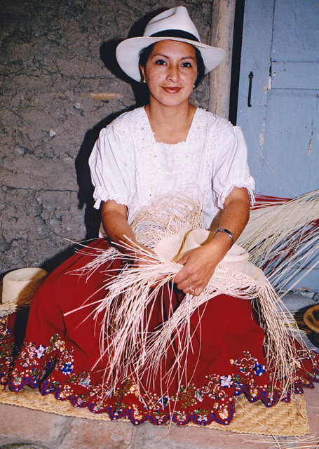 Woman who makes a kind of straw hats in Ecuador